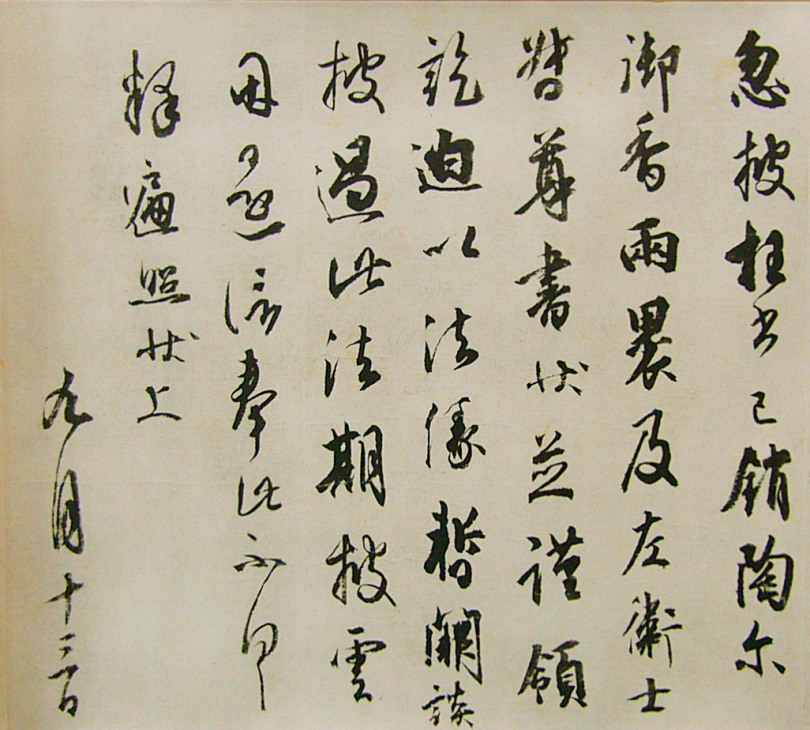 Huushincho, 2nd letter, written by Kūkai, owned by Touji Temple, Kyoto, Japan